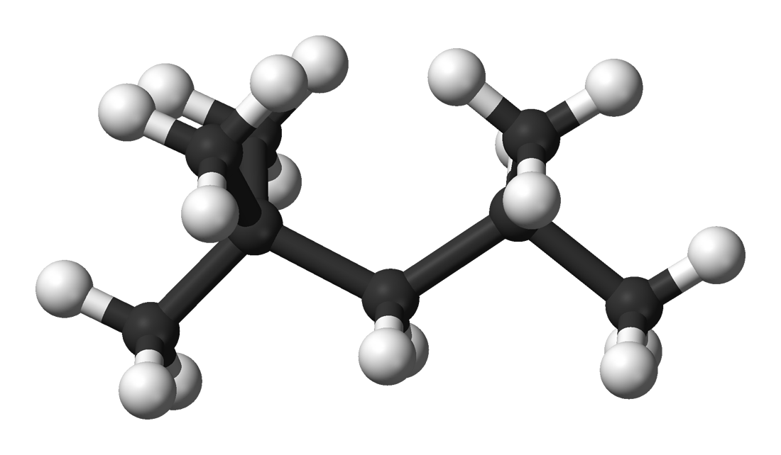 Ball-and-stick model of the isooctane molecule